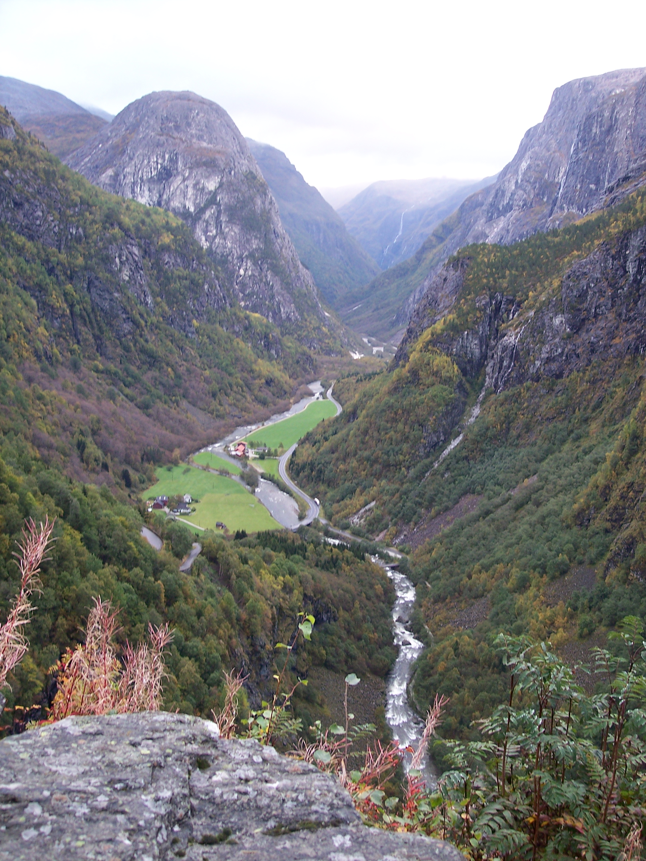 View of the valley Nærøydalen from the Stalheim Hotel terrace. The river through the valley is Nærøydalselvi and the road is E16. The rounded mountain at the left hand side of the valley is Jordalsnuten.